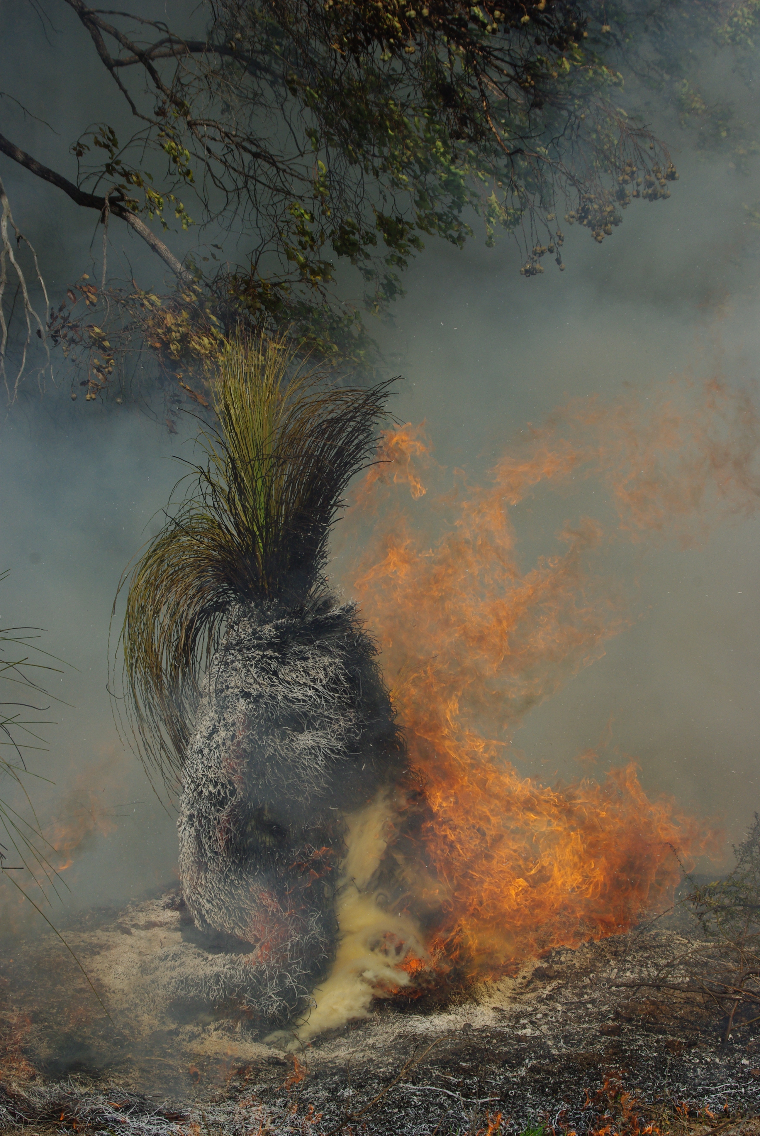 Xanthorrhoea being burnt during hazard reduction burn